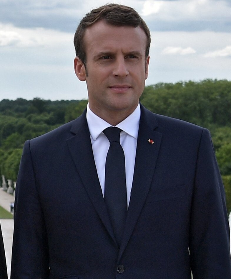 The French president Emmanuel Macron, during a meeting with the Russian president Vladimir Putin (Versailles).